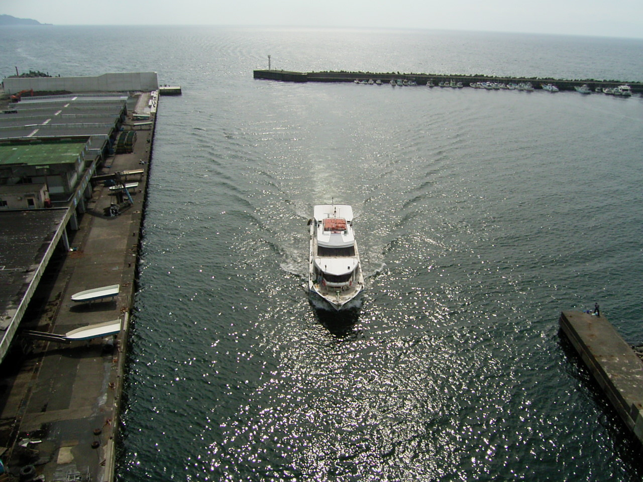 White marine Heda-unsosen Shizuoka Japan